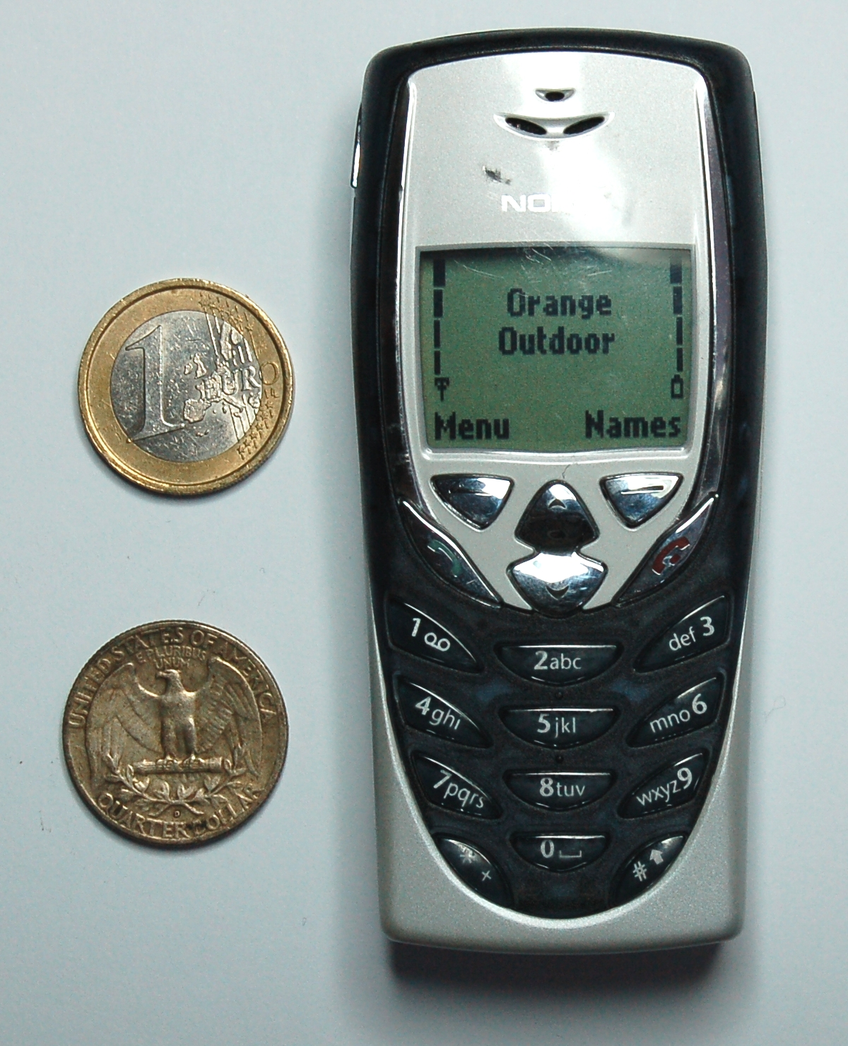 Nokia 8310 with two coins